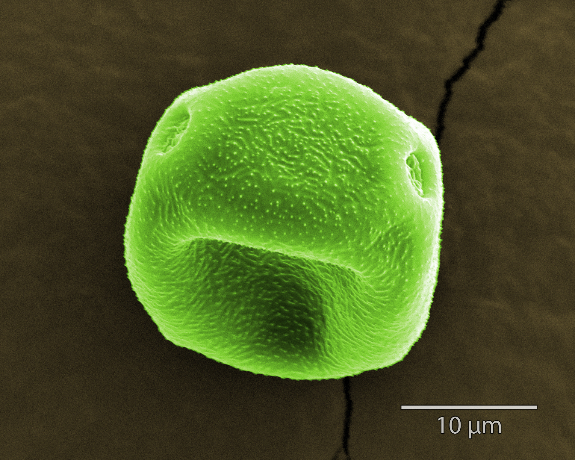 Alder pollen collected from LUT Green Campus. SEM image taken at Lappeenranta University of Technology.